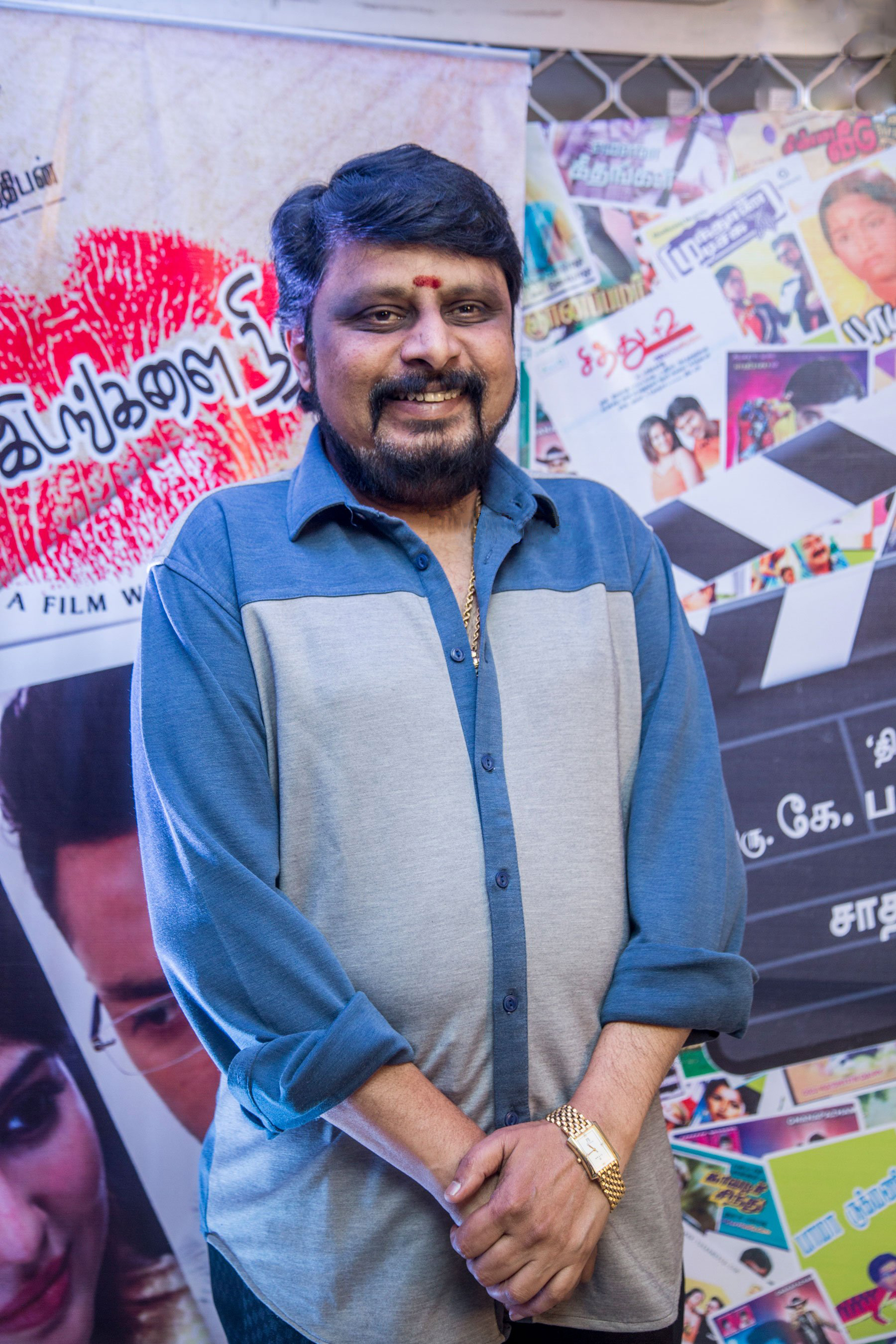 Vikraman at Koditta Idangalai Nirappuga Audio Launch and Felicitation to K Bhagyaraj